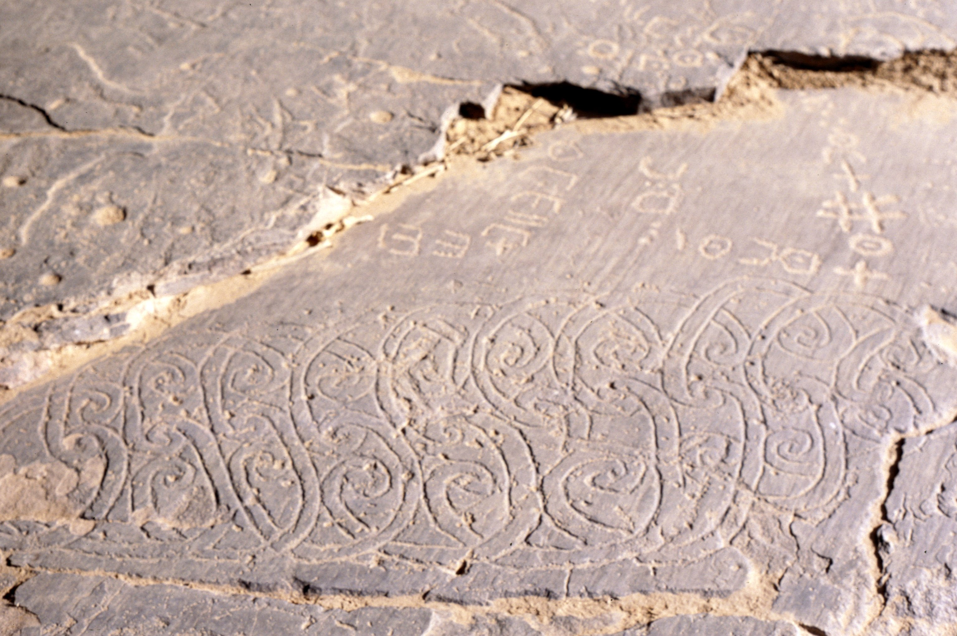 Rock art in the Algerian Sahara. Tifinagh writings, Tamanghasset Province, Algeria.